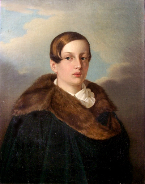 Prinz Moritz von Sachsen-Altenburg